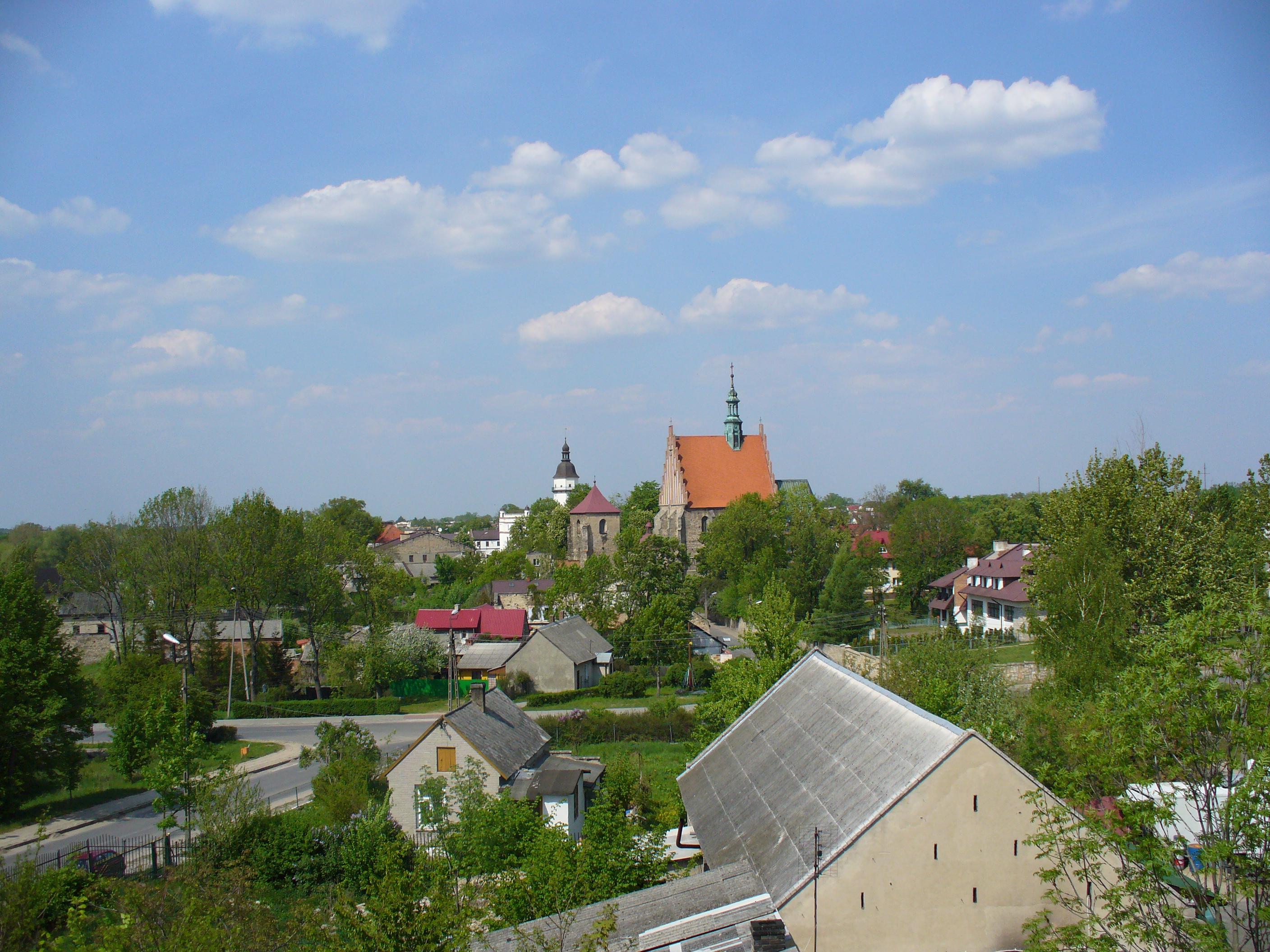 Panorama of Szydłowiec from three crosses mountain. Szydłowiec near Radom, Poland.